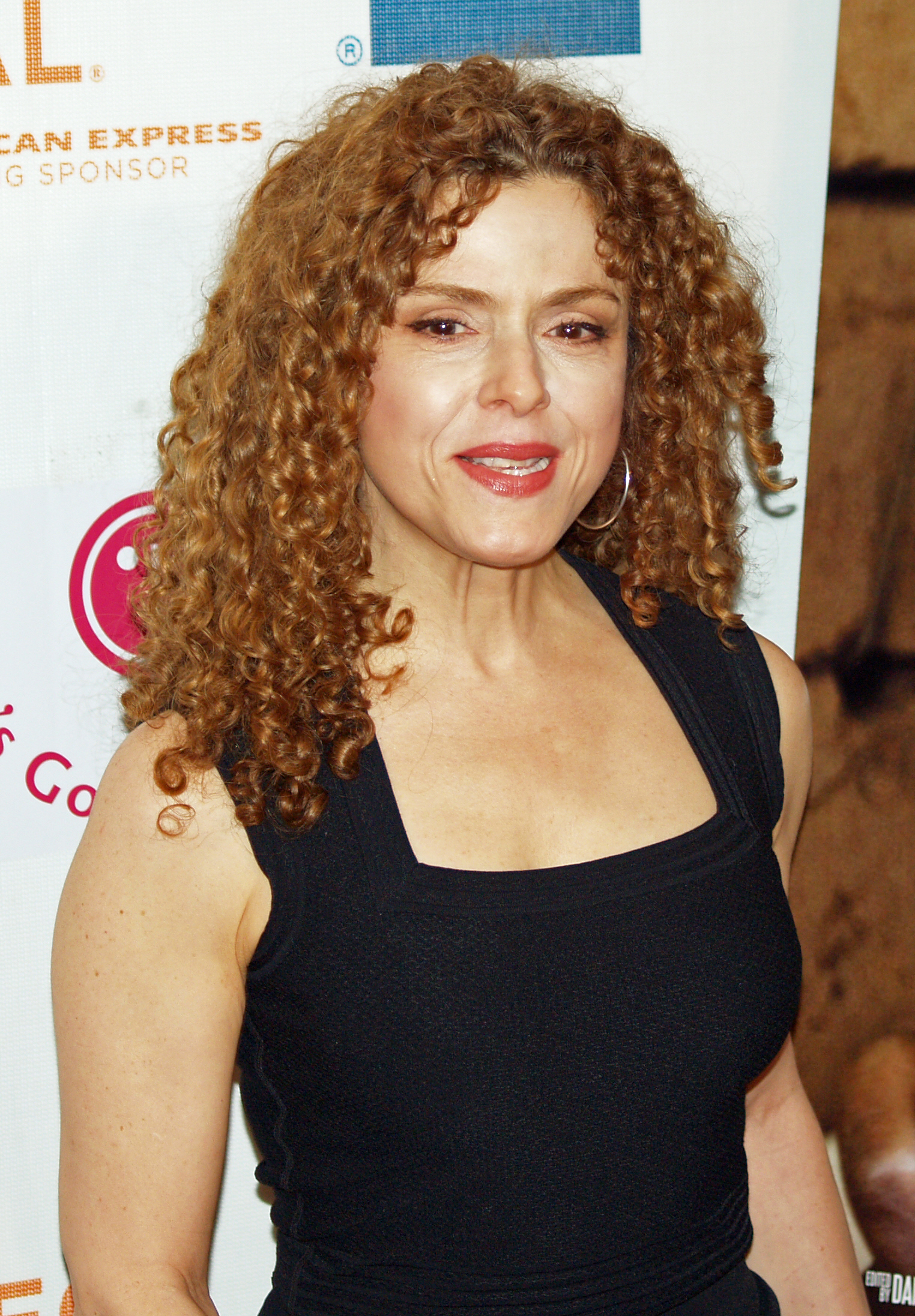 Bernadette Peters at the premiere of I Am Because We Are at the 2008 Tribeca Film Festival